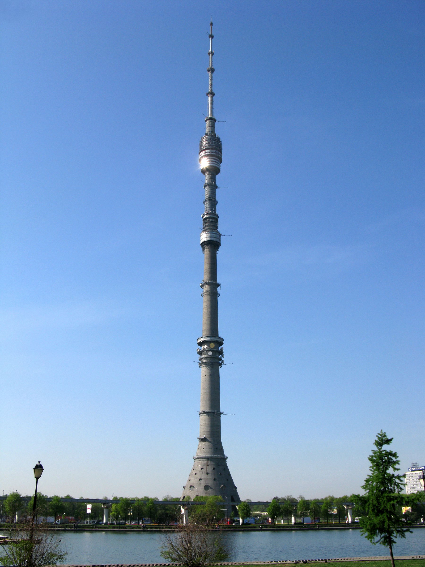 TVtower_in_Ostankino